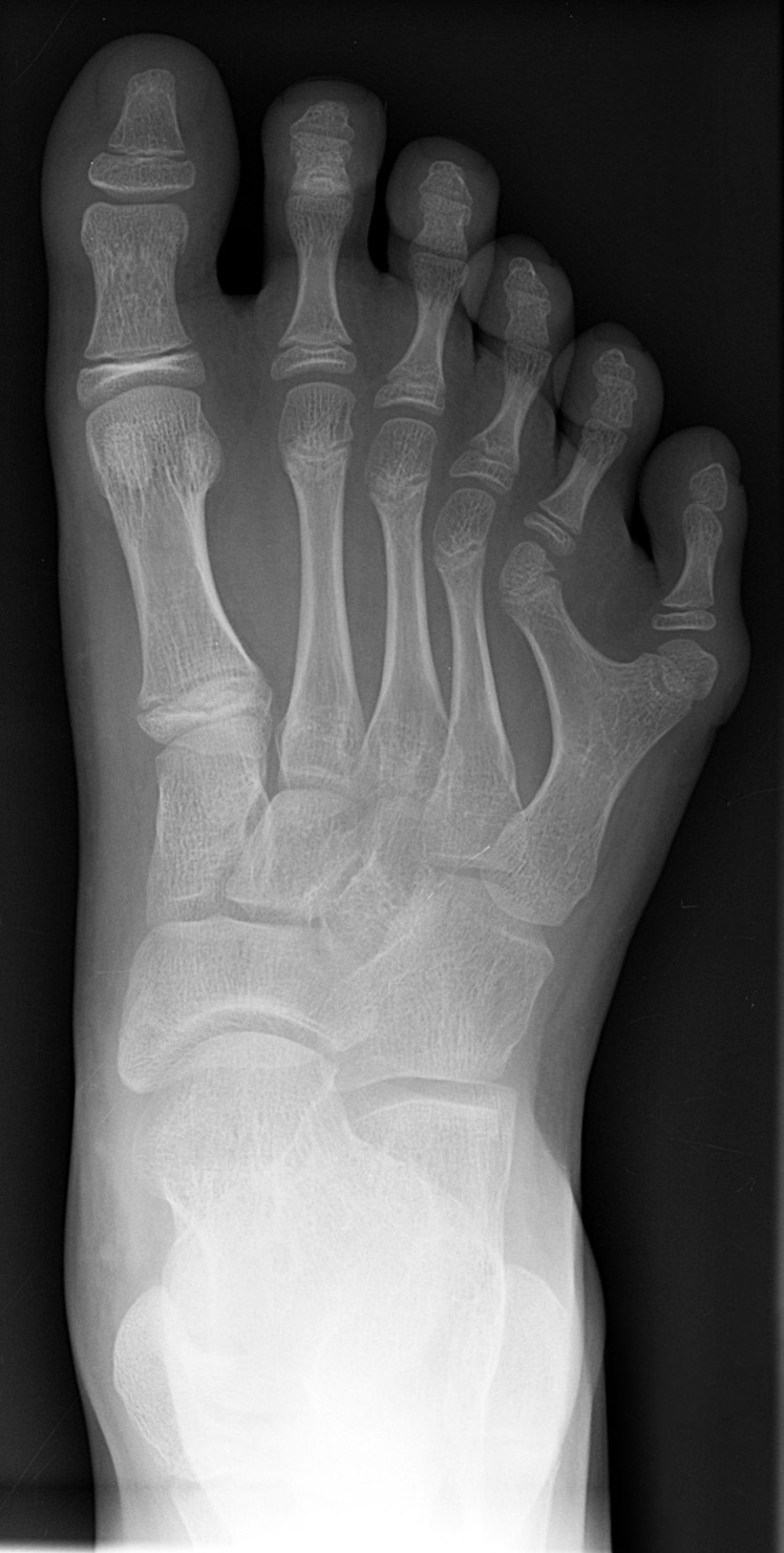 Conversion of a DICOM-format X-ray from a patient of User:Drgnu23, a ten year old male. This is the patient's right foot, anterior-posterior view. Identifying tags and such have been stripped. The image is his, released under the GFDL. The image was subsequently altered by user:Grendelkhan, user: Raul654, and user:Solipsist.